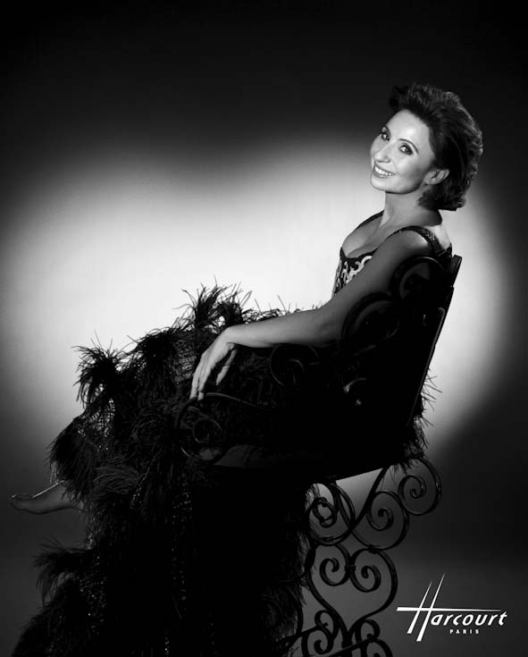 Ariane Ascaride photographed by Studio Harcourt Paris